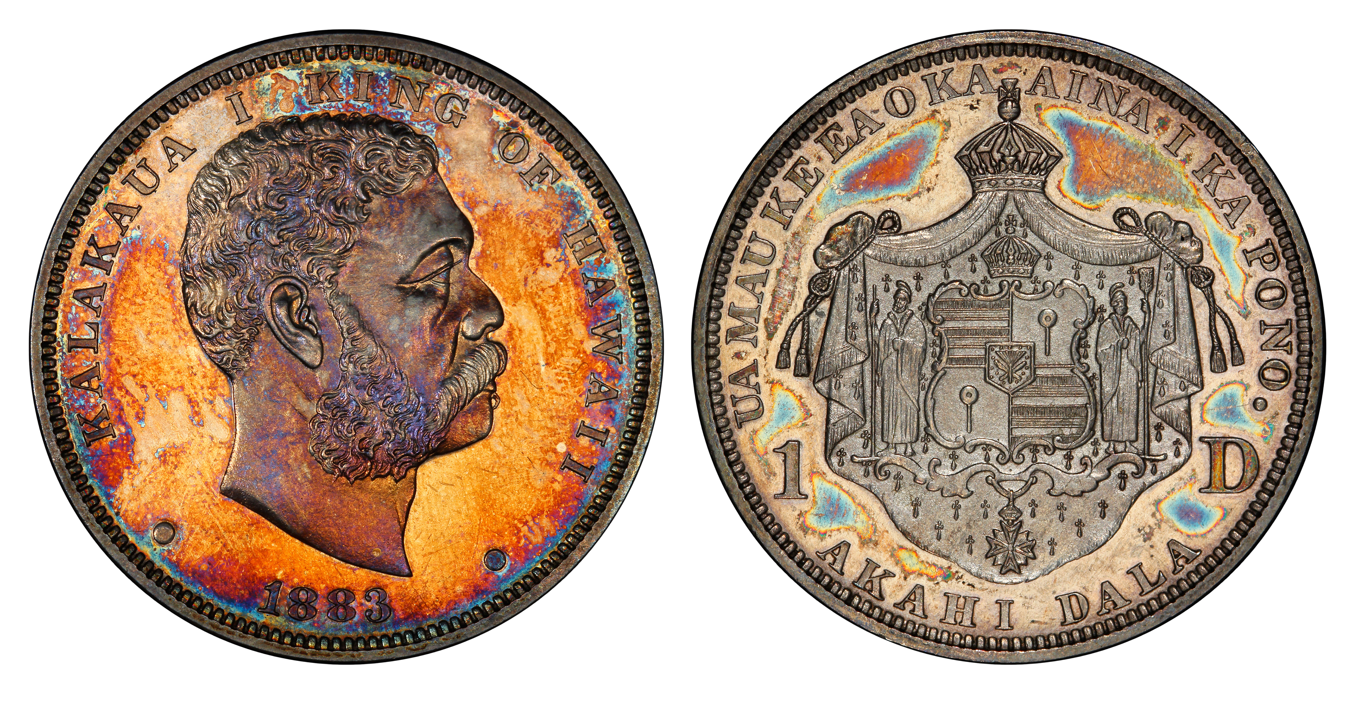 Hawaii 1883 One Dollar silver coin with effigy of King Kalākaua struck at either the San Francisco Mint or the Philadelphia Mint for the Kingdom of Hawaii.